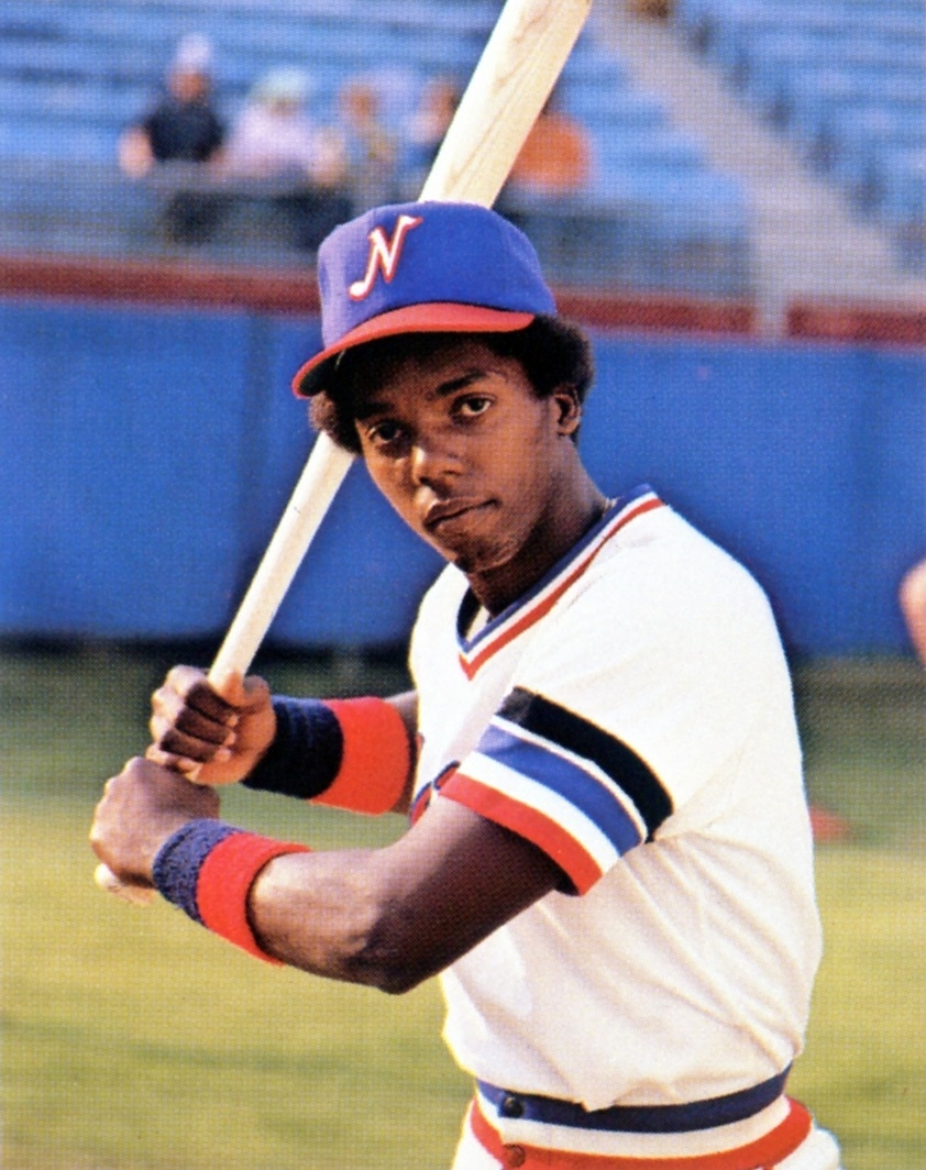 Outfielder Ted Wilborn of the 1980 Nashville Sounds Minor League Baseball team of the Southern League